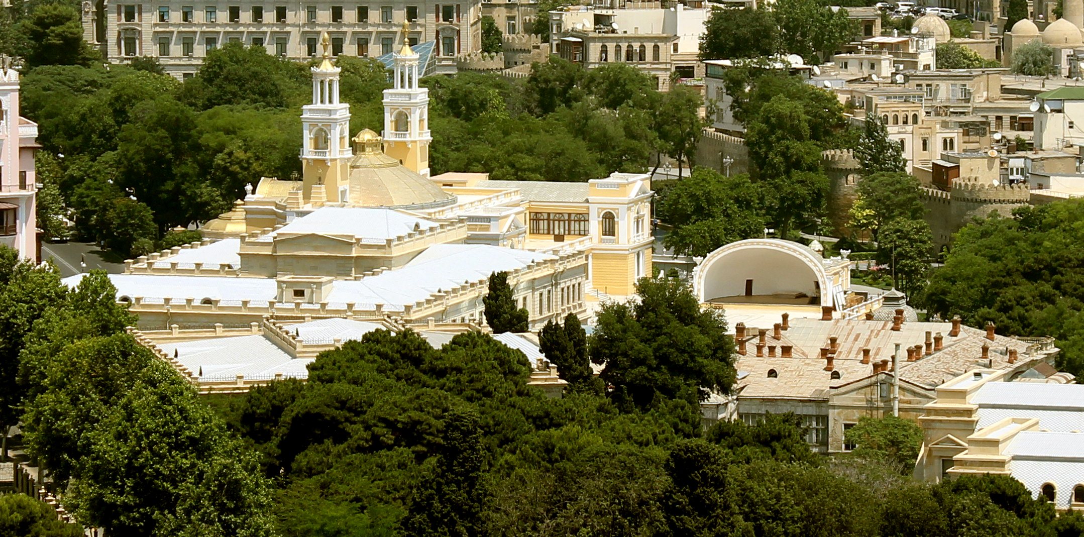 Azerbaijan State Philharmonic Hall common